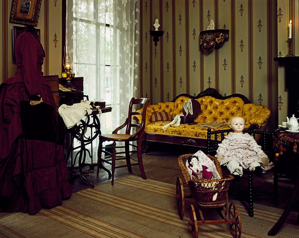 1880s decor in room at the Manship House, built by Charles Henry Manship, a paperhanger and future mayor of Jackson, Mississippi